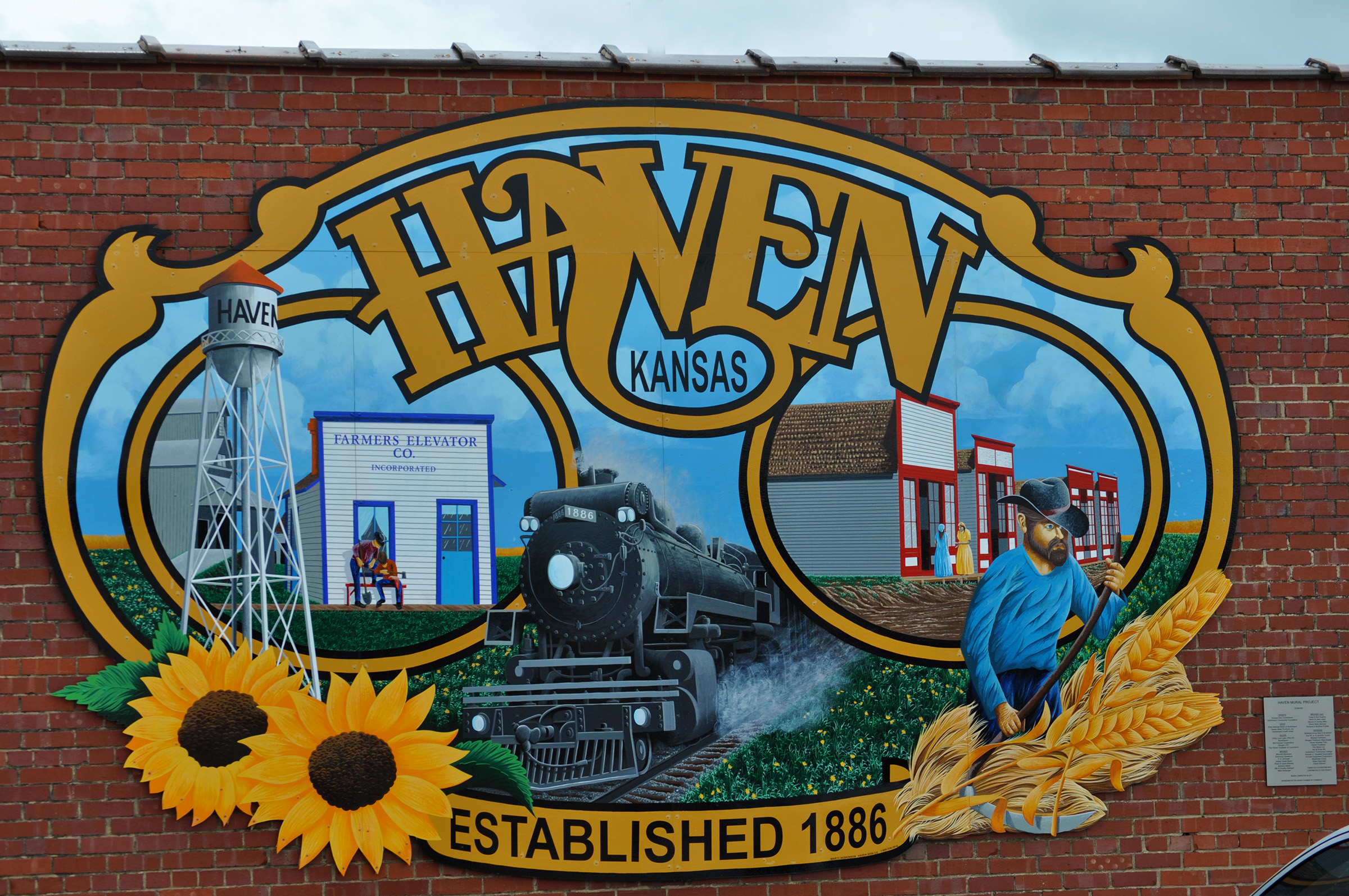 Haven Town Mural